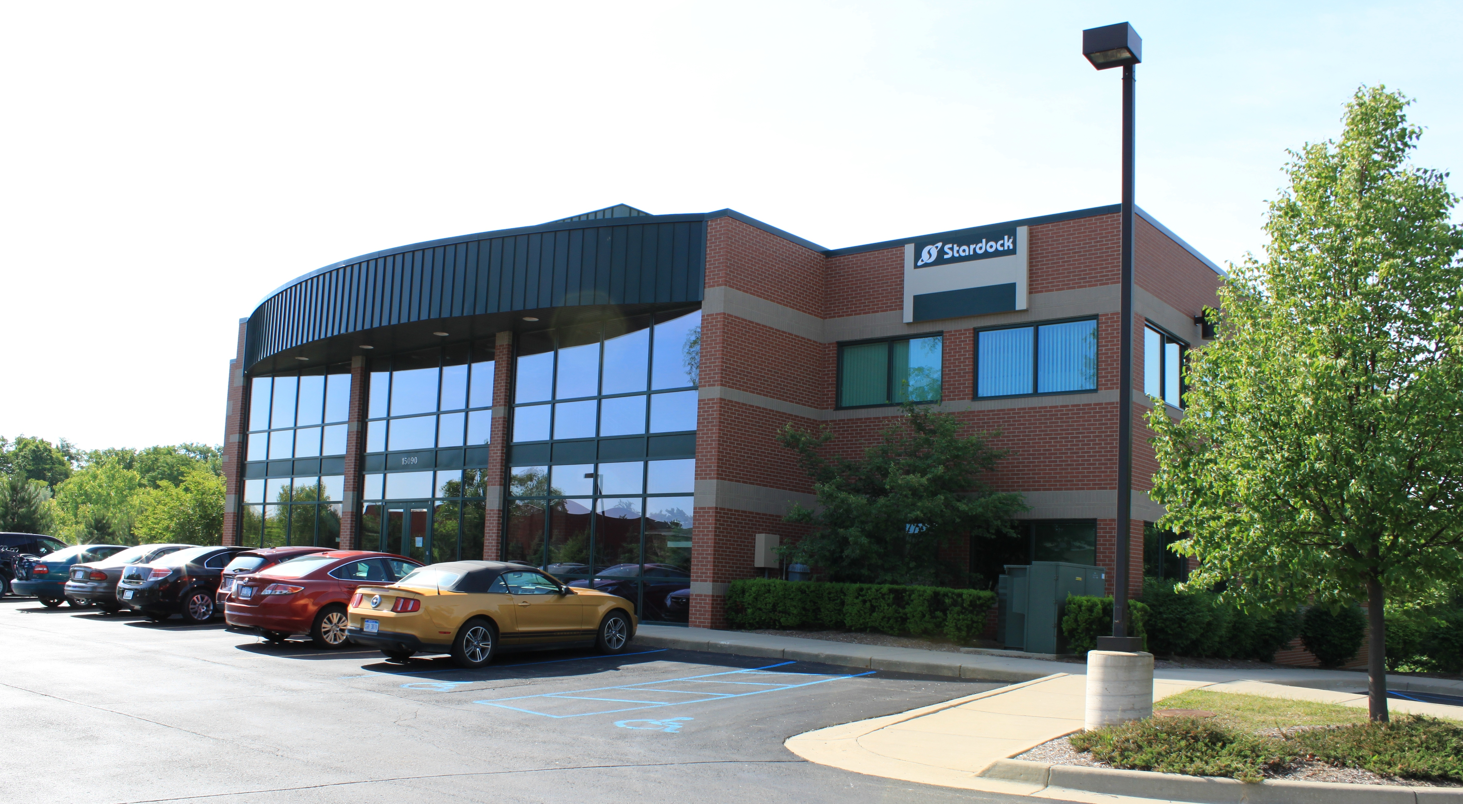 Stardock Corporation headquarters building, 15090 Beck Road, Plymouth, Michigan